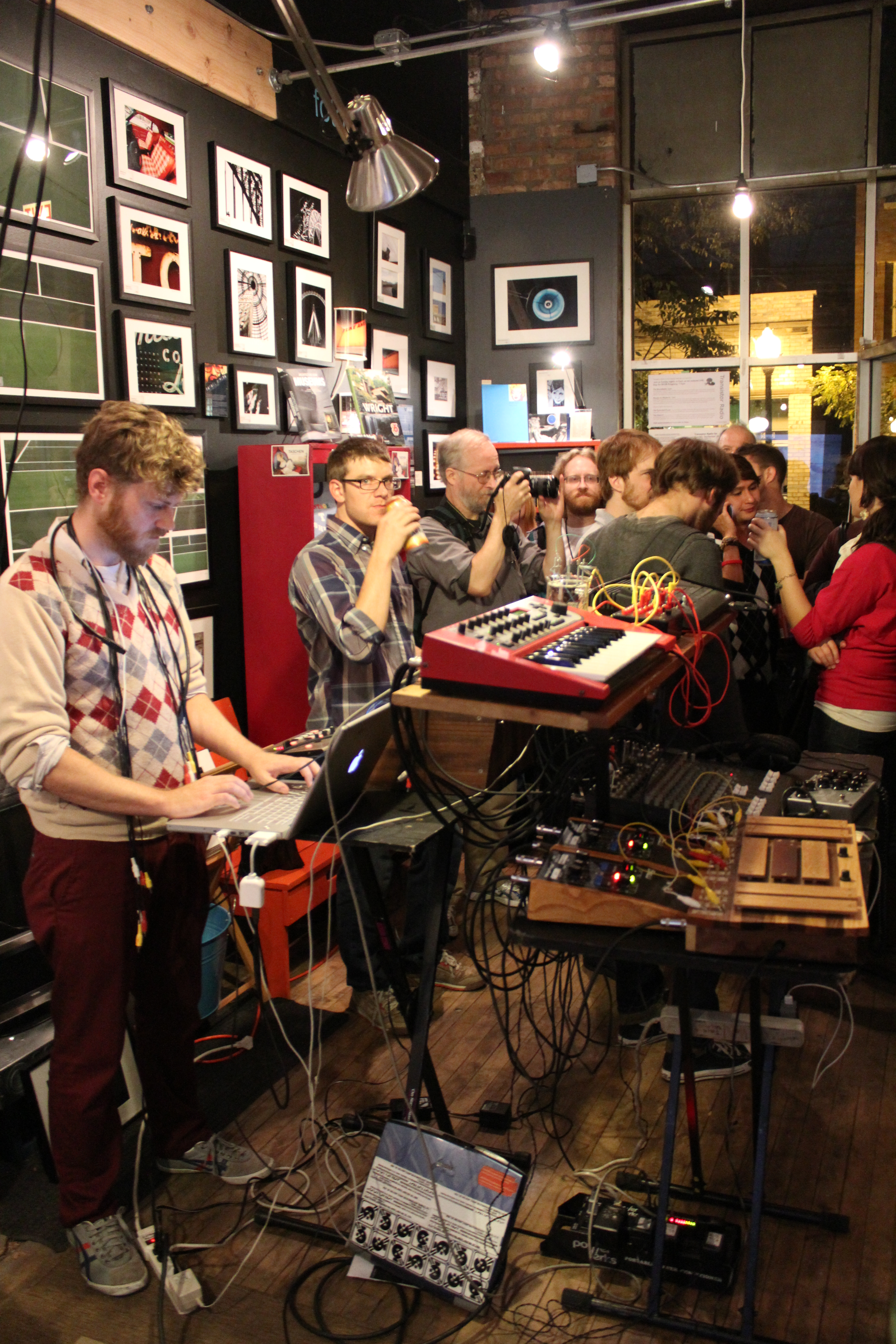 GLI.TC/H Artist Talks & Lectures(IMG_5699), SAIC Flaxman Theater, Chicago, October 3, 2010